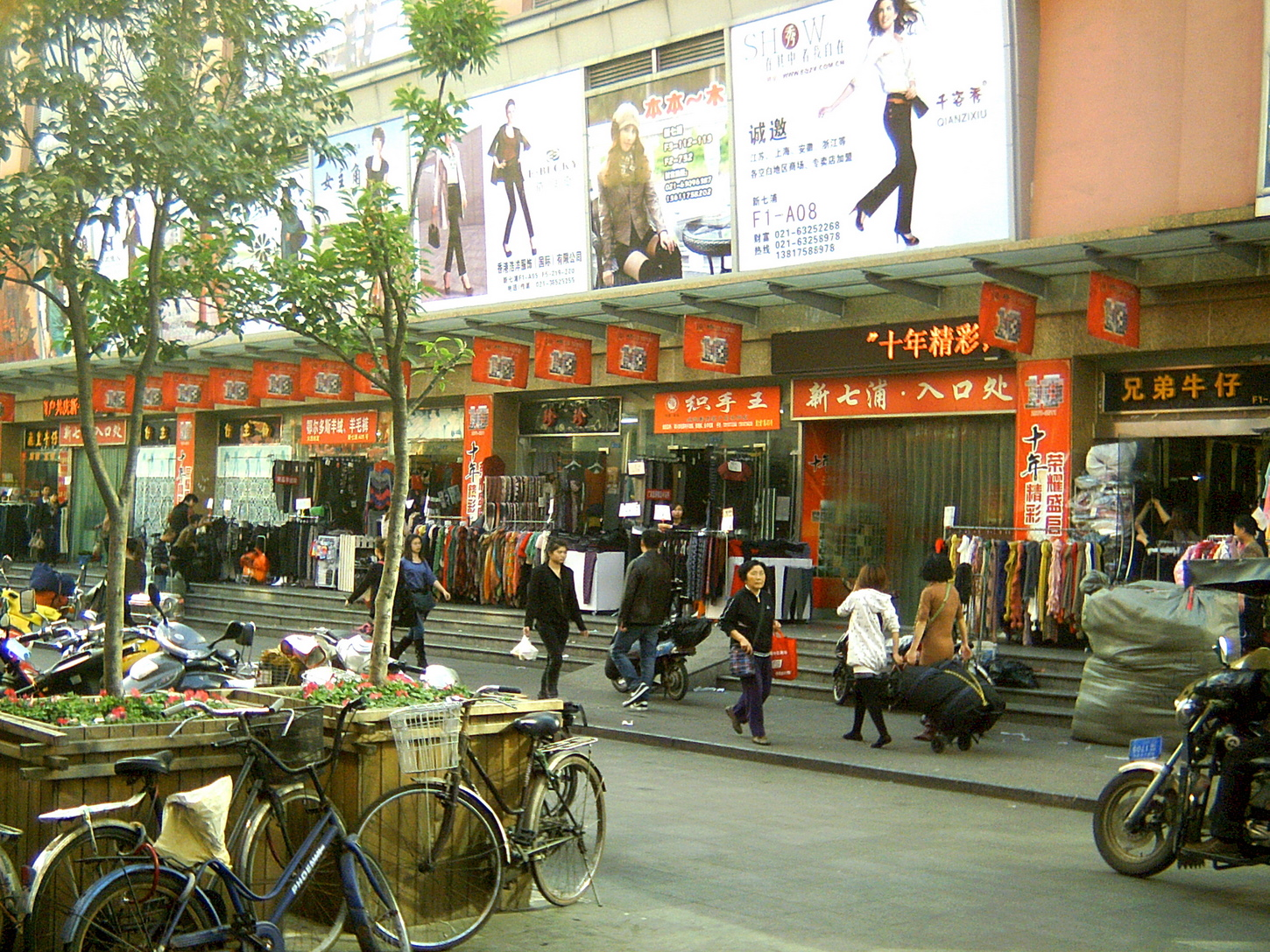 Qipu road in Shanghai Unknown